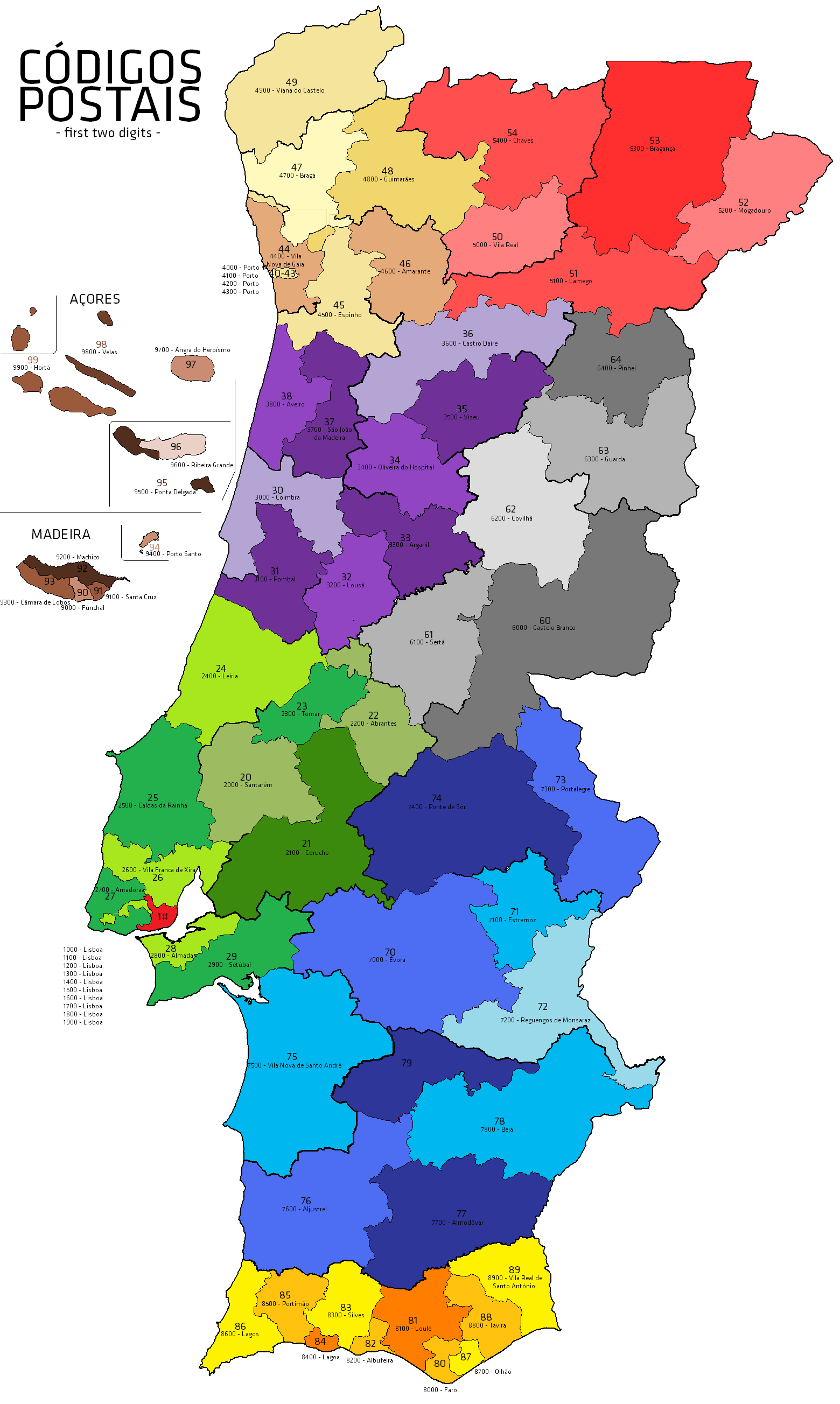 Main Postal Regions in Portugal 1 - Red (Lisbon) 2 - Green (Lisbon Metropolitan Area, Santarém and Leiria) 3 - Purple (Coimbra, Aveiro and Viseu) 4 - Cream (Porto, Braga and Viana do Castelo) 5 - Pink (Vila Real and Bragança) 6 - Grey (Guarda and Castelo Branco) 7 - Blue (Évora, Portalegre and Beja) 8 - Yellow (Faro/Algarve) 9 - Brown (Azores and Madeira Islands)